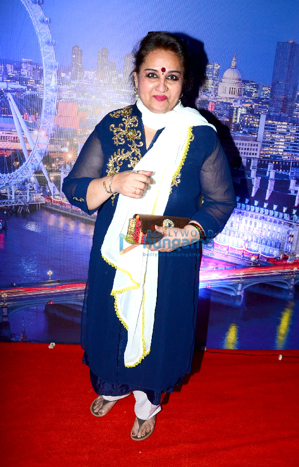 Actress Reena Roy in 2018